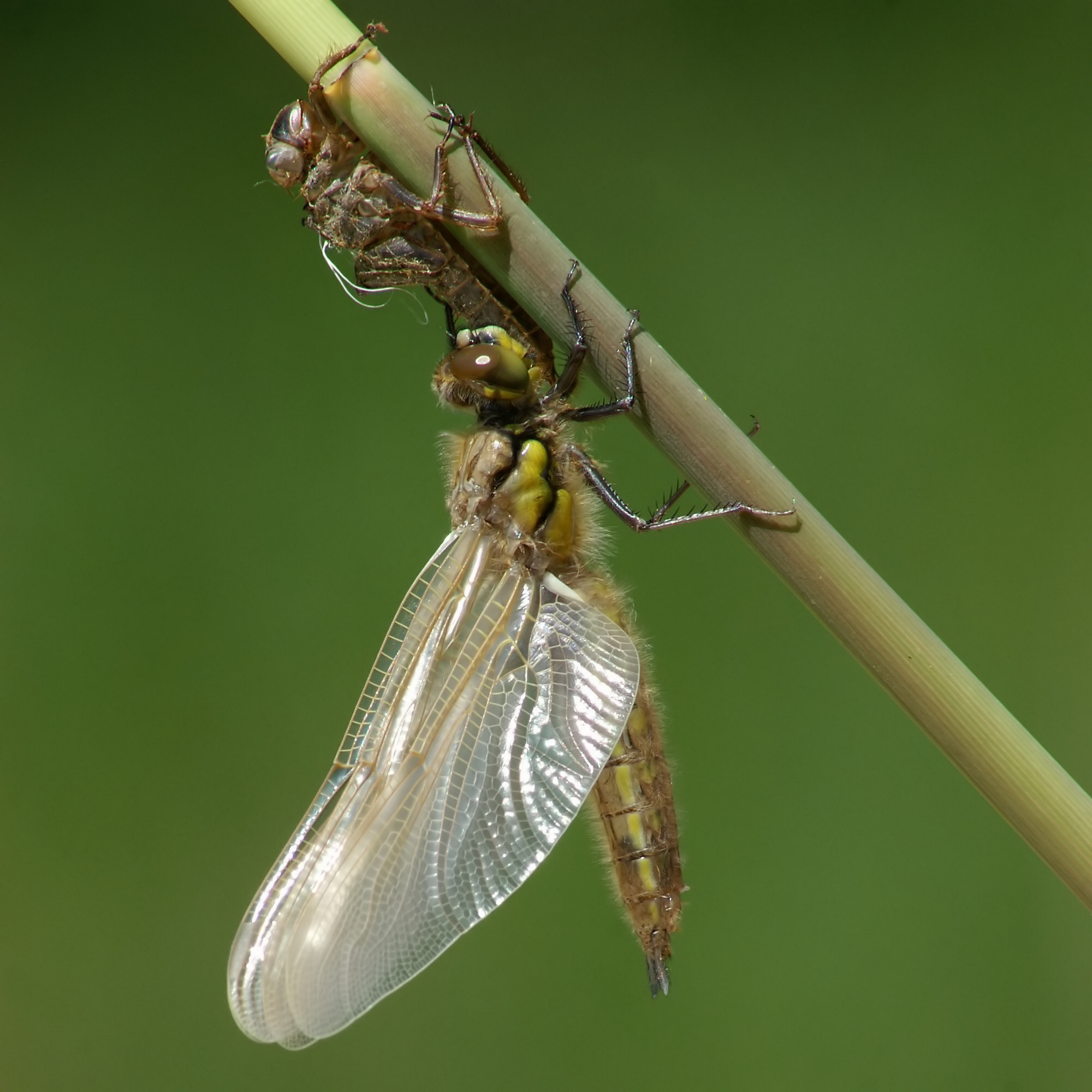 ChaserFour-spotted freshly slipped with larva skin